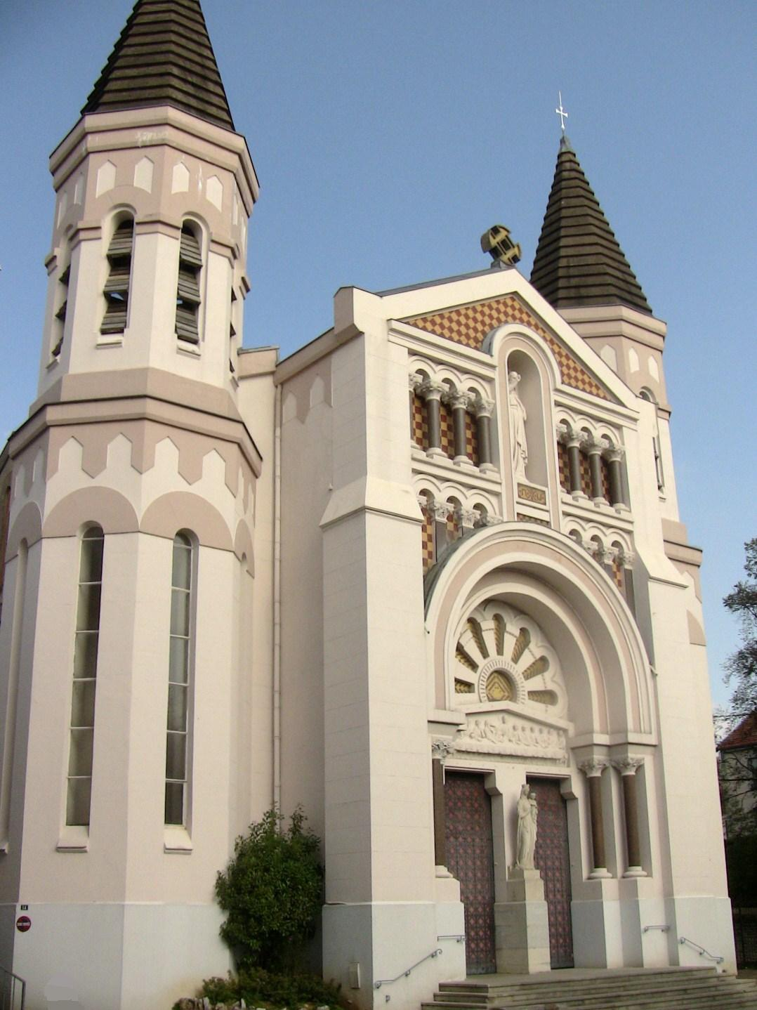 Church of Sacré-Cœur, located in Besançon (Doubs, France)